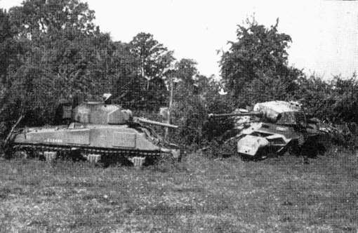 Destroyed tanks on Mont Ormel (Hill 262). Left is a Sherman, right foreground is an SdKfz 251, behind it is a Panther